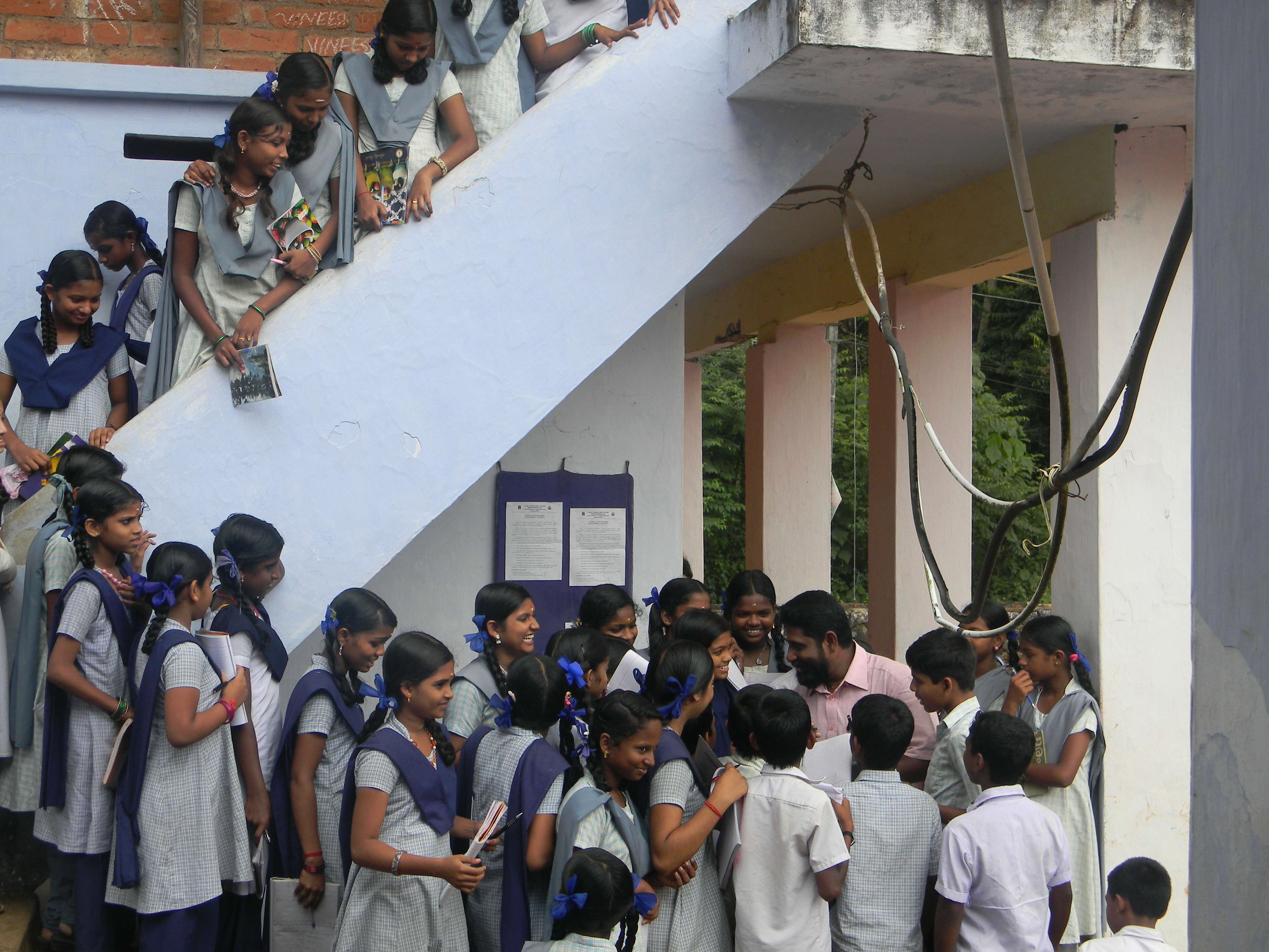 AKMHSS Poochatty school students with director sathish kalathil